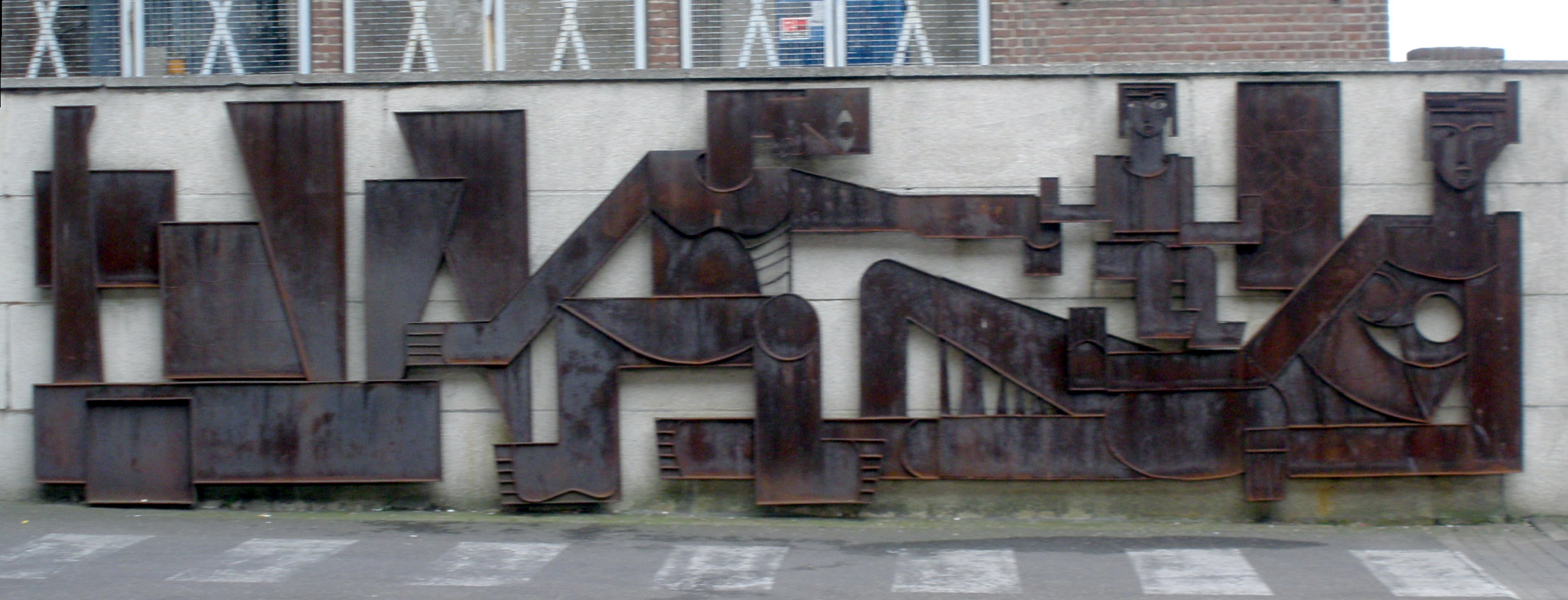 Maastricht, the Netherlands. Relief at SAPPI Maastricht.